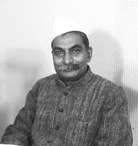 Food Minister Dr. Rajendra Prasad's broadcast to the nation.